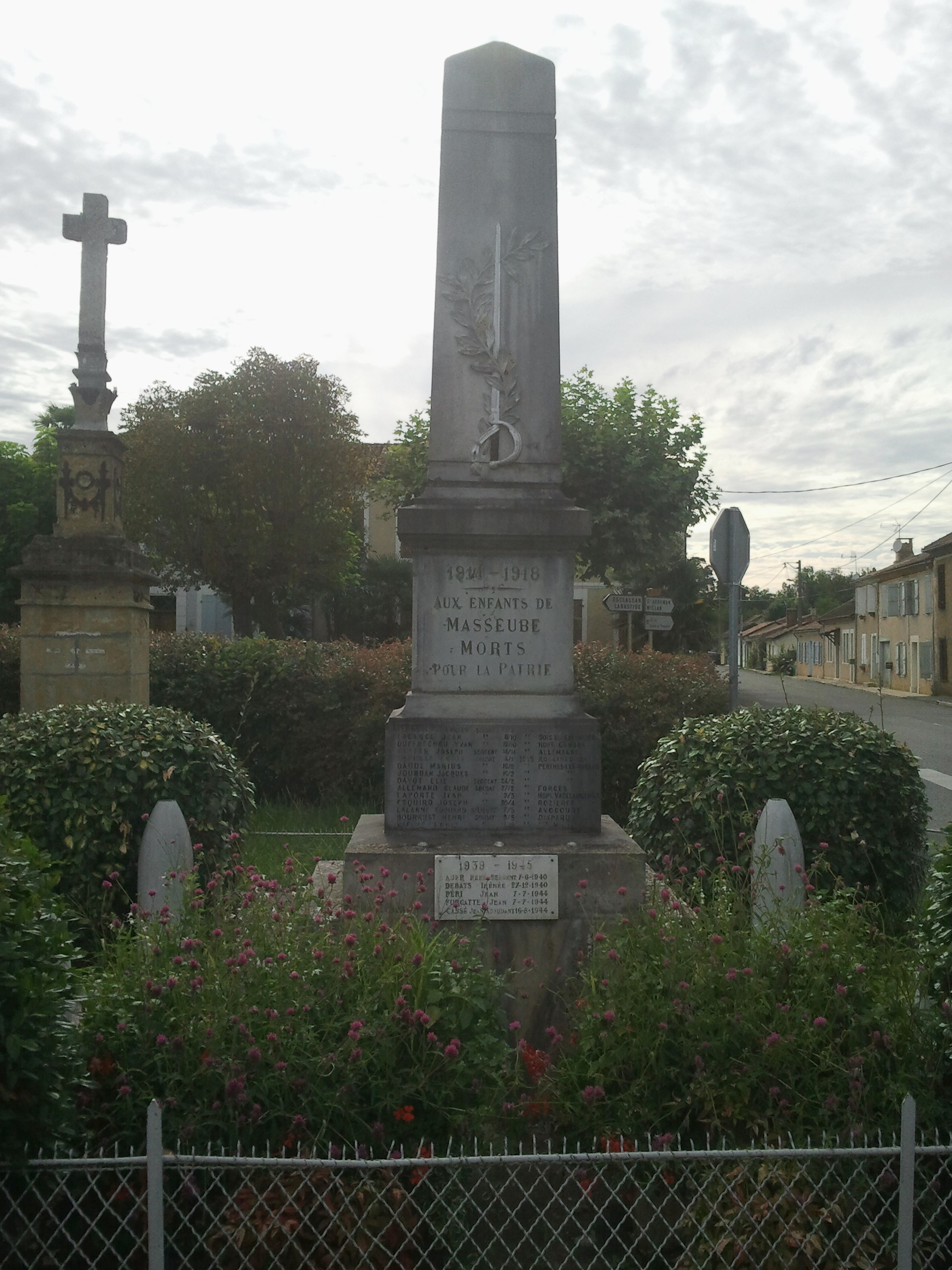 The war memorial in Masseube